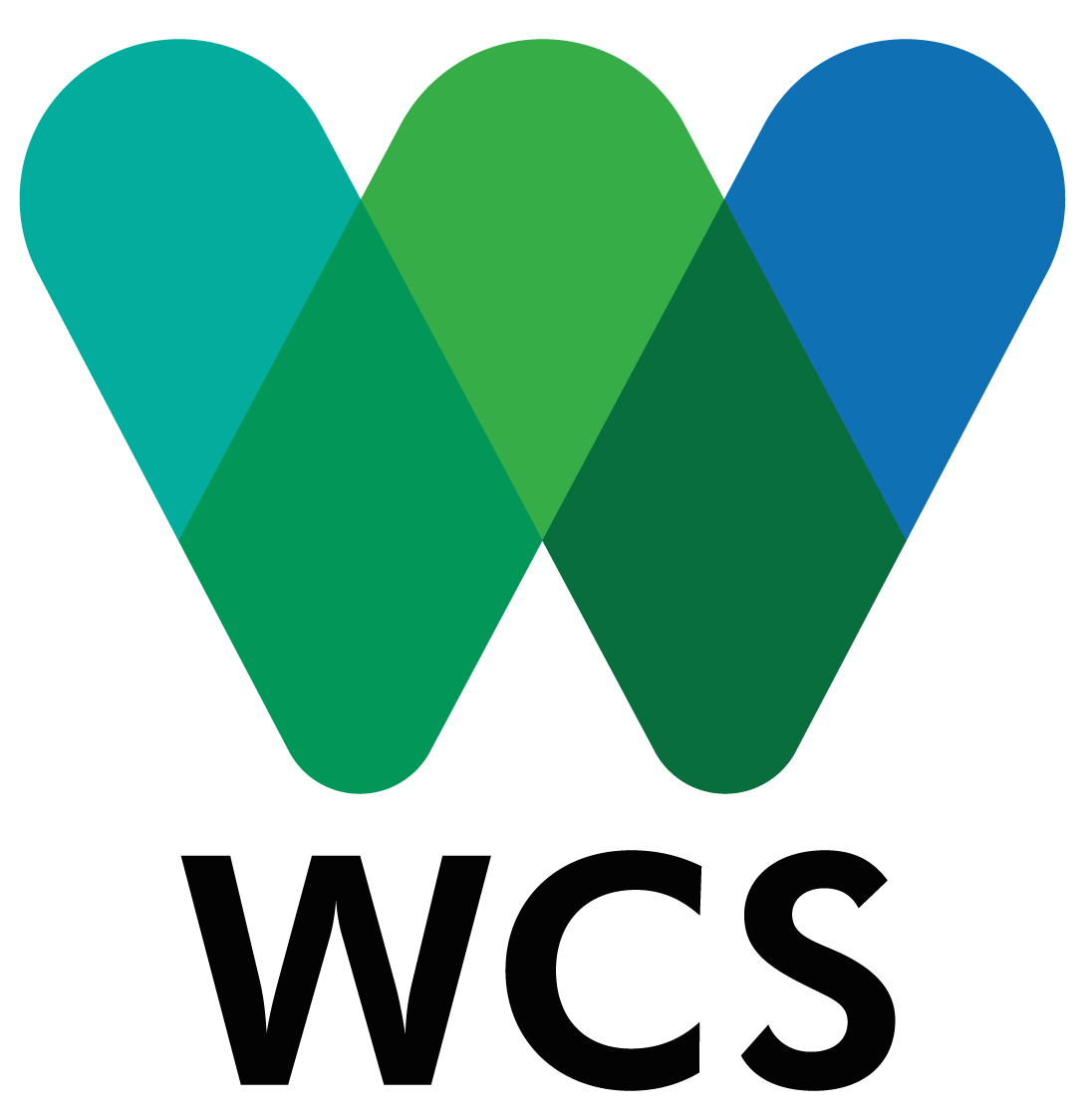 Logo for the Wildlife Conservation Society.